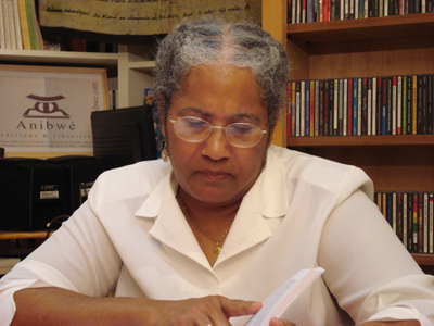 Rosa Amélia Plumelle-Uribe